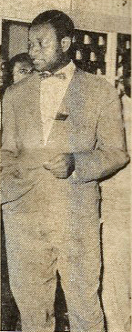 Alphonse Songolo, minister of communications in Patrice Lumumba's cabinet. Executed in Stanleyville.